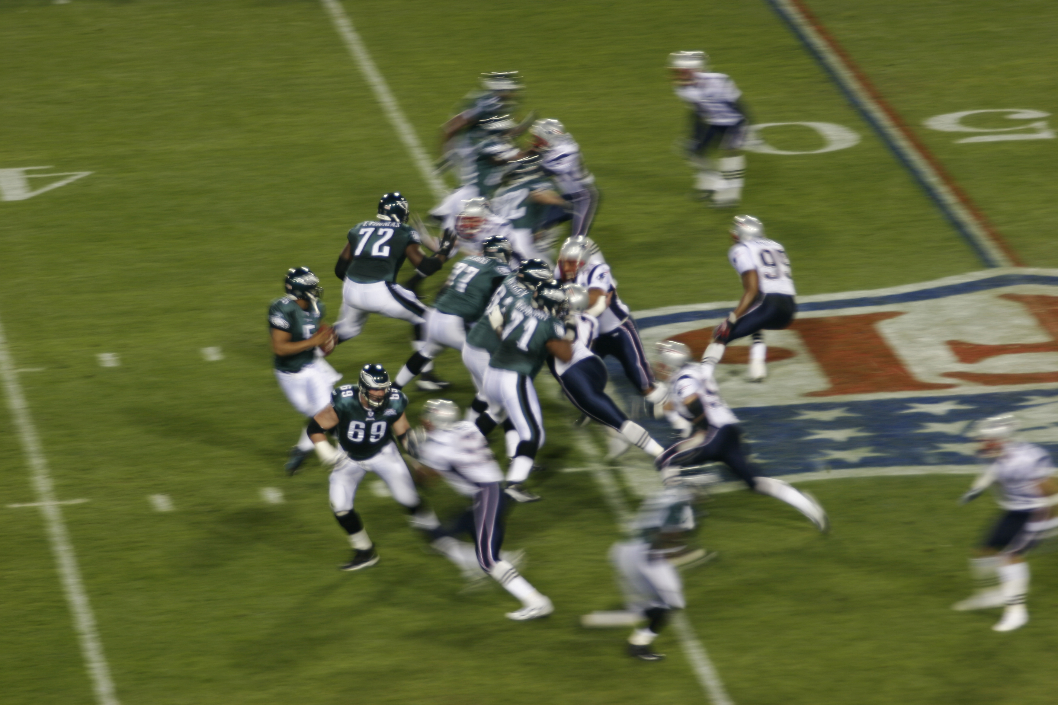 The Patriots defense rushes the Eagles offense during Super Bowl XXXIX. The Pats D had 4 sacks costing the Eagles 33 yards.